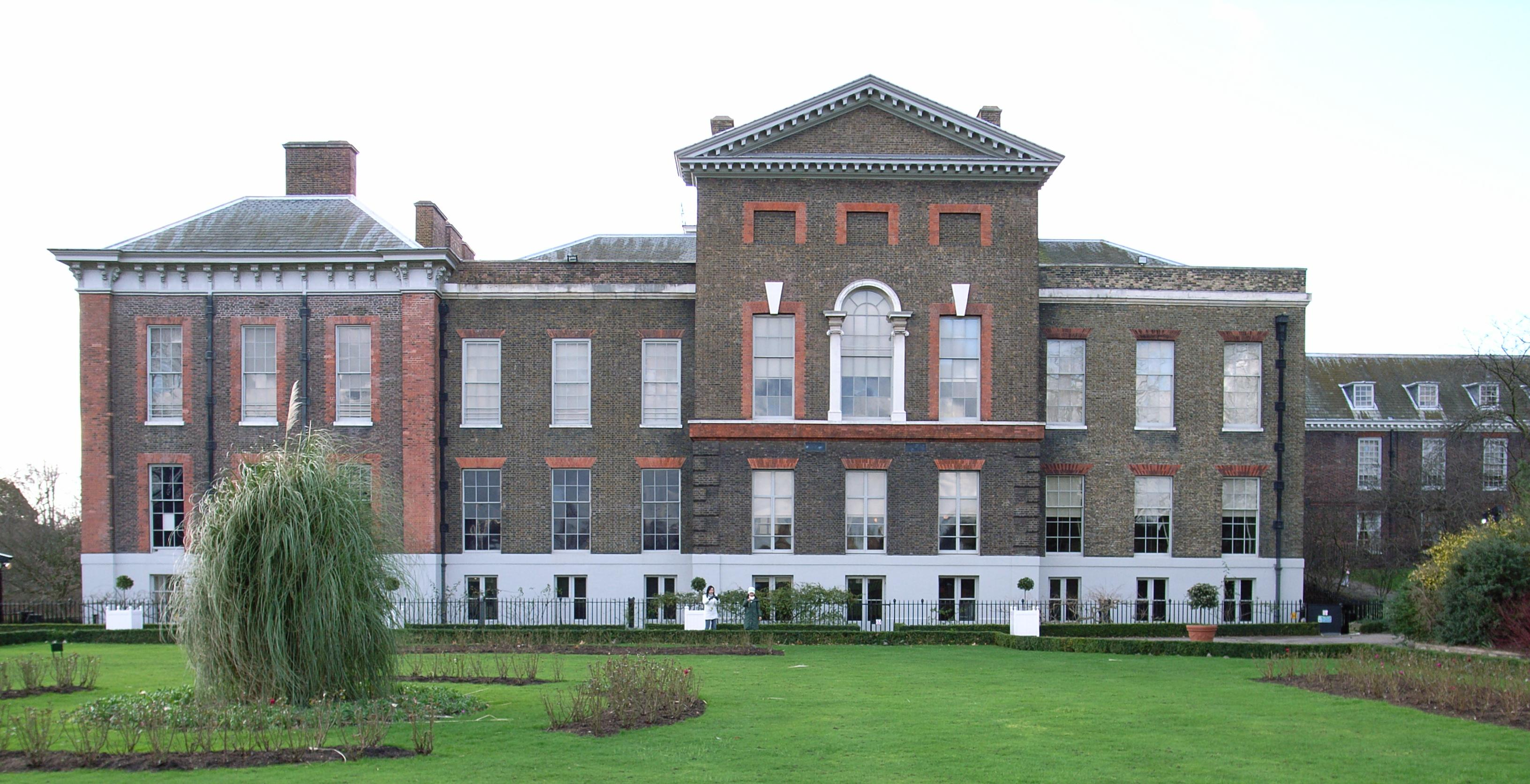 East Facade, Kensington Palace (1661-1702) by Christopher Wren / Nicholas Hawksmoor